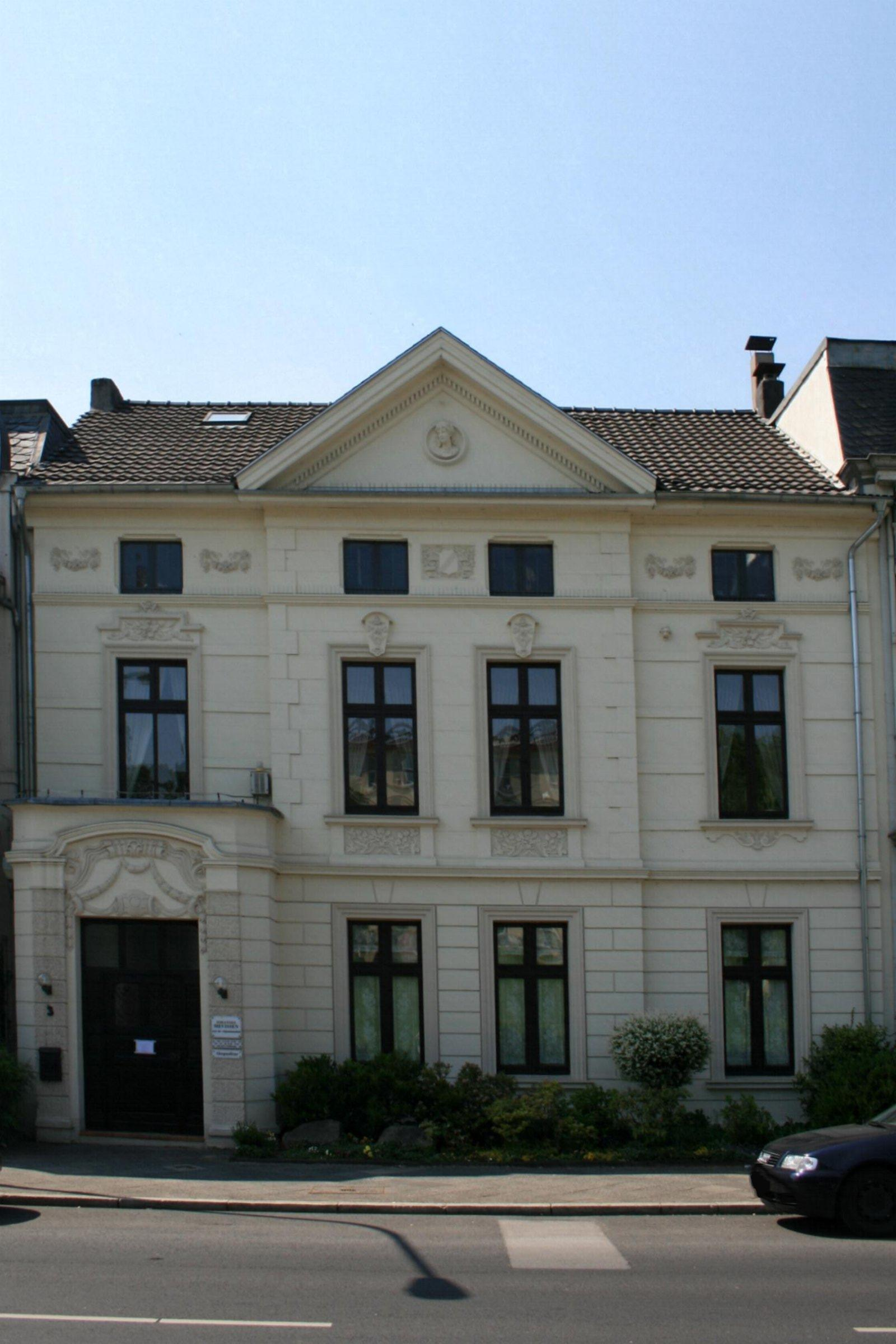 Cultural heritage monument No. B 133 in Mönchengladbach